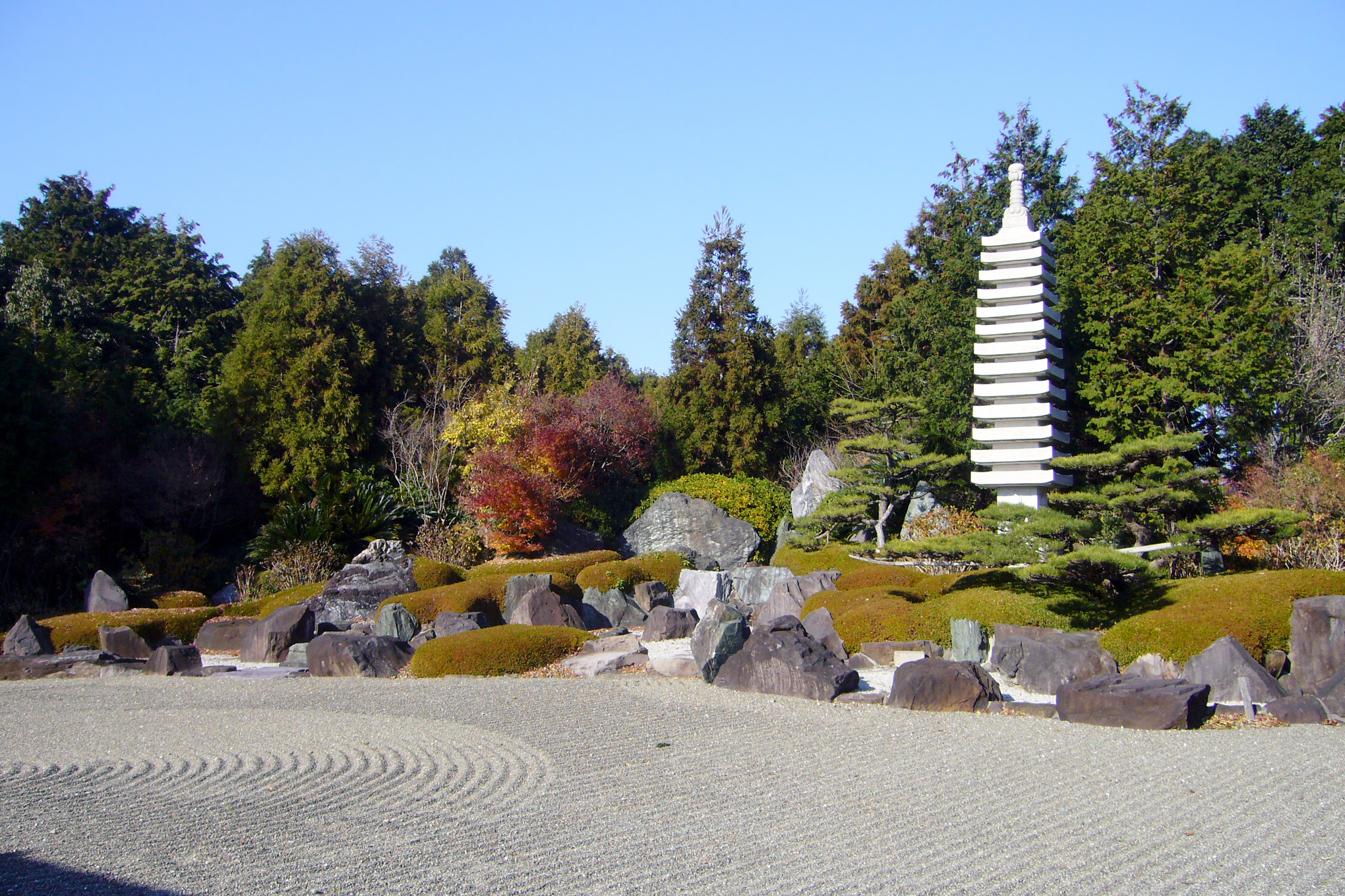 Chokei-ji in Sennan, Osaka prefecture, Japan.